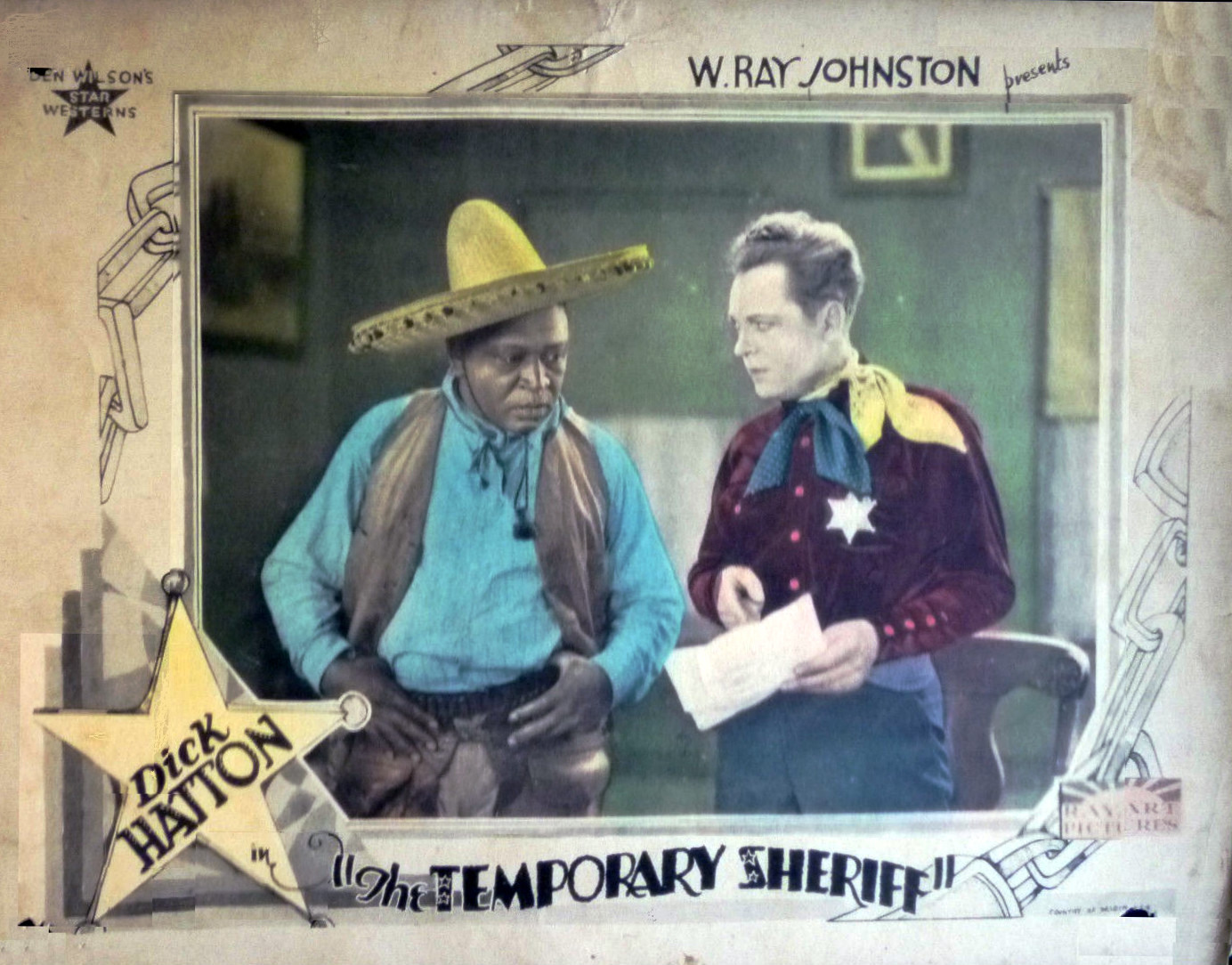 Lobby card for the American western film The Temporary Sheriff (1926).